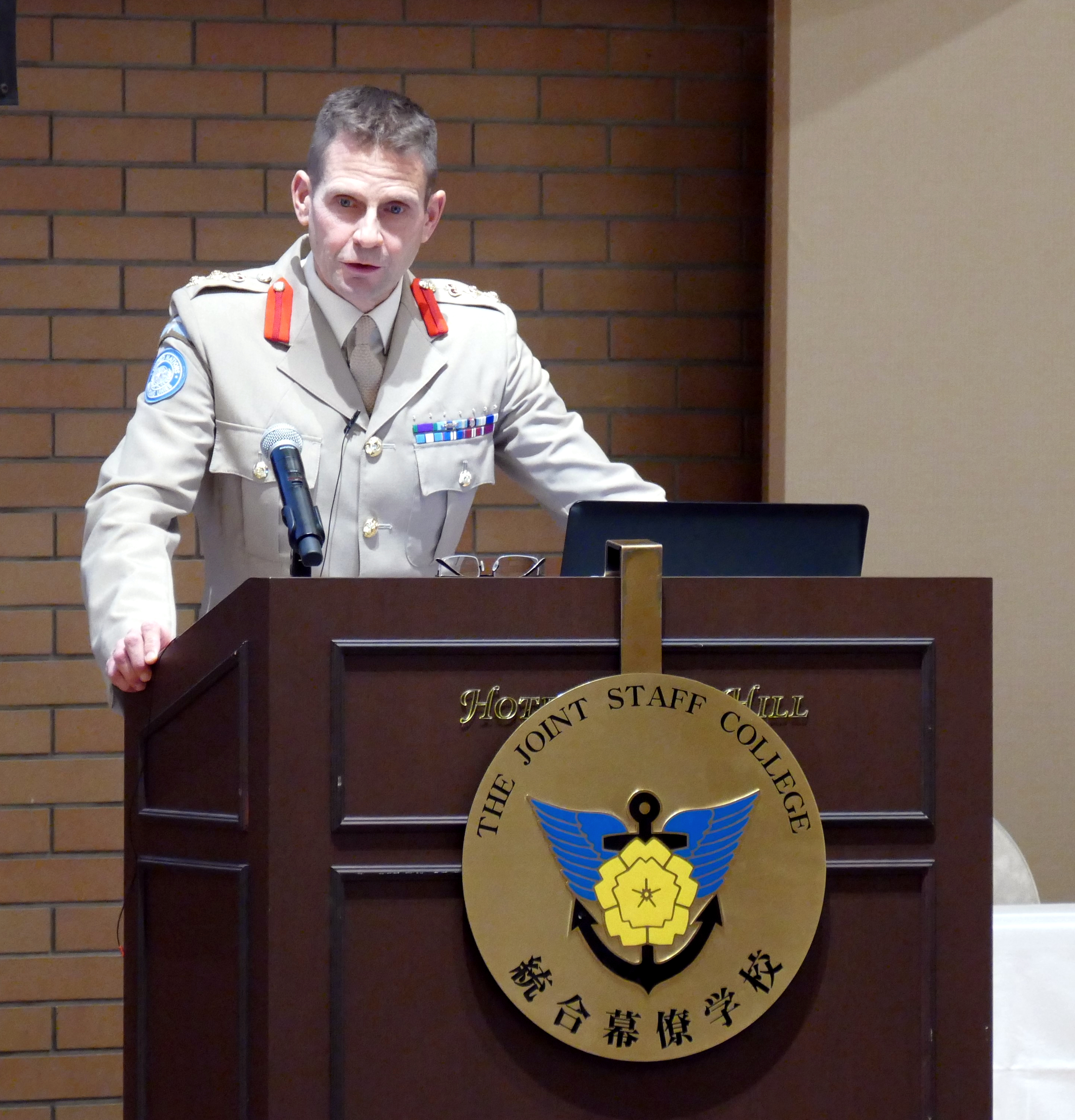 Tim Wildish, Special Assistant to the Military Adviser of the Office of Military Affairs, Department of Peace Operations, United Nations, attended a symposium at the Hotel Grand Hill Ichigaya in Shinjuku Ward, Tōkyō Metropolis on December 2, 2019.